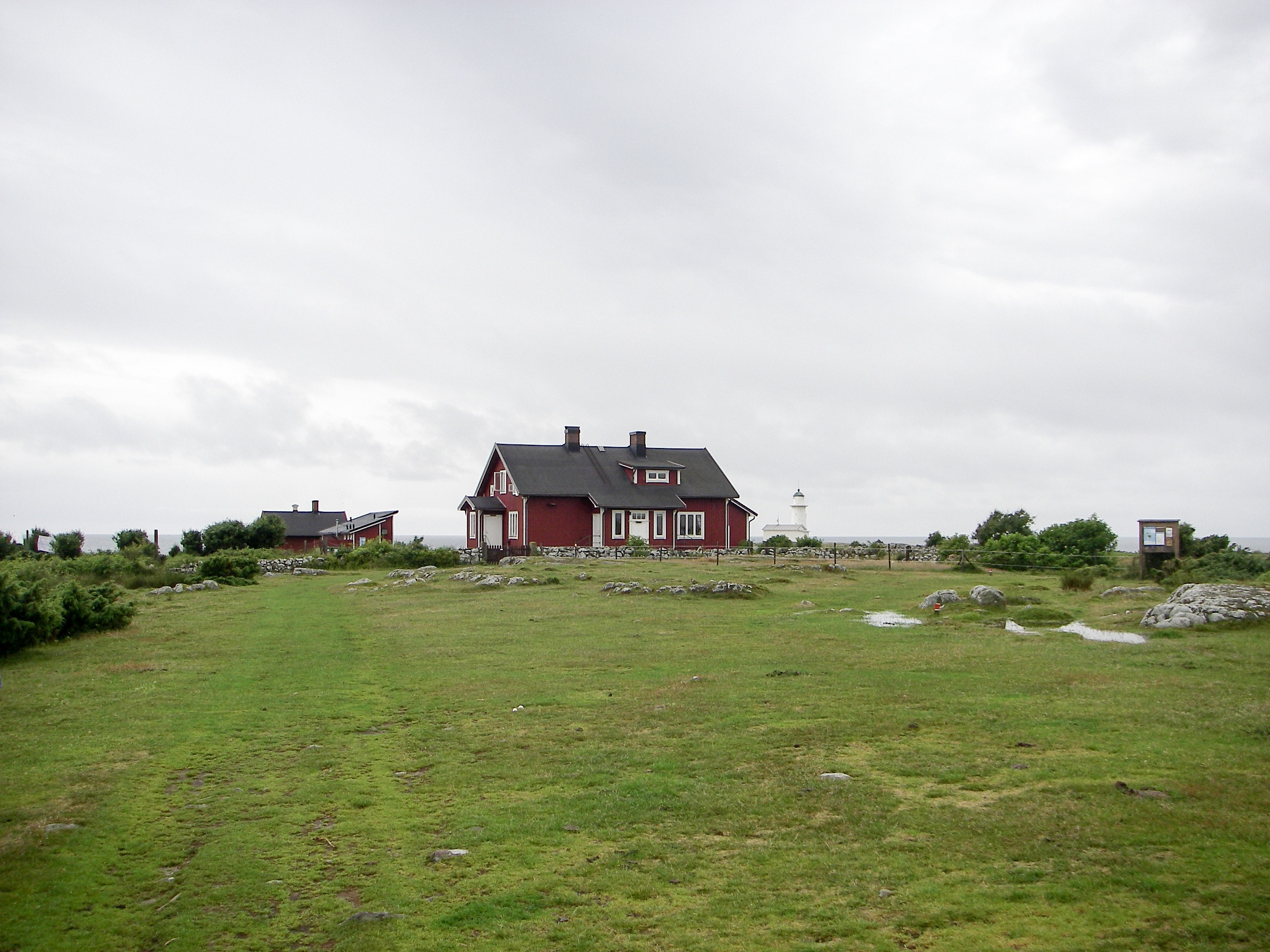 The lighthouse keepers house and the lighthouse on the island Hallands Väderö.